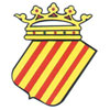 Almogavares Villena